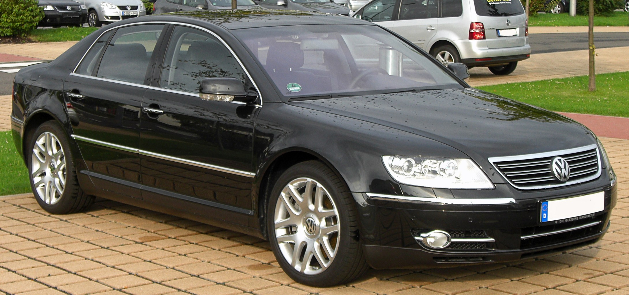 VW Phaeton V6 TDI 3.0 I. Facelift